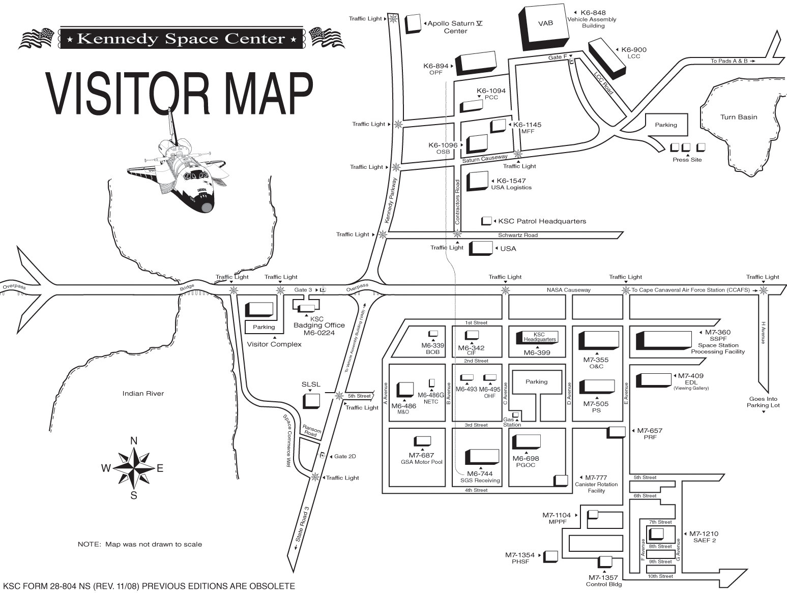 map of Kennedy Space Center. This map is provided to press and other official visitors to the Kennedy Space Center by the Public Affairs Office or badging and security office.